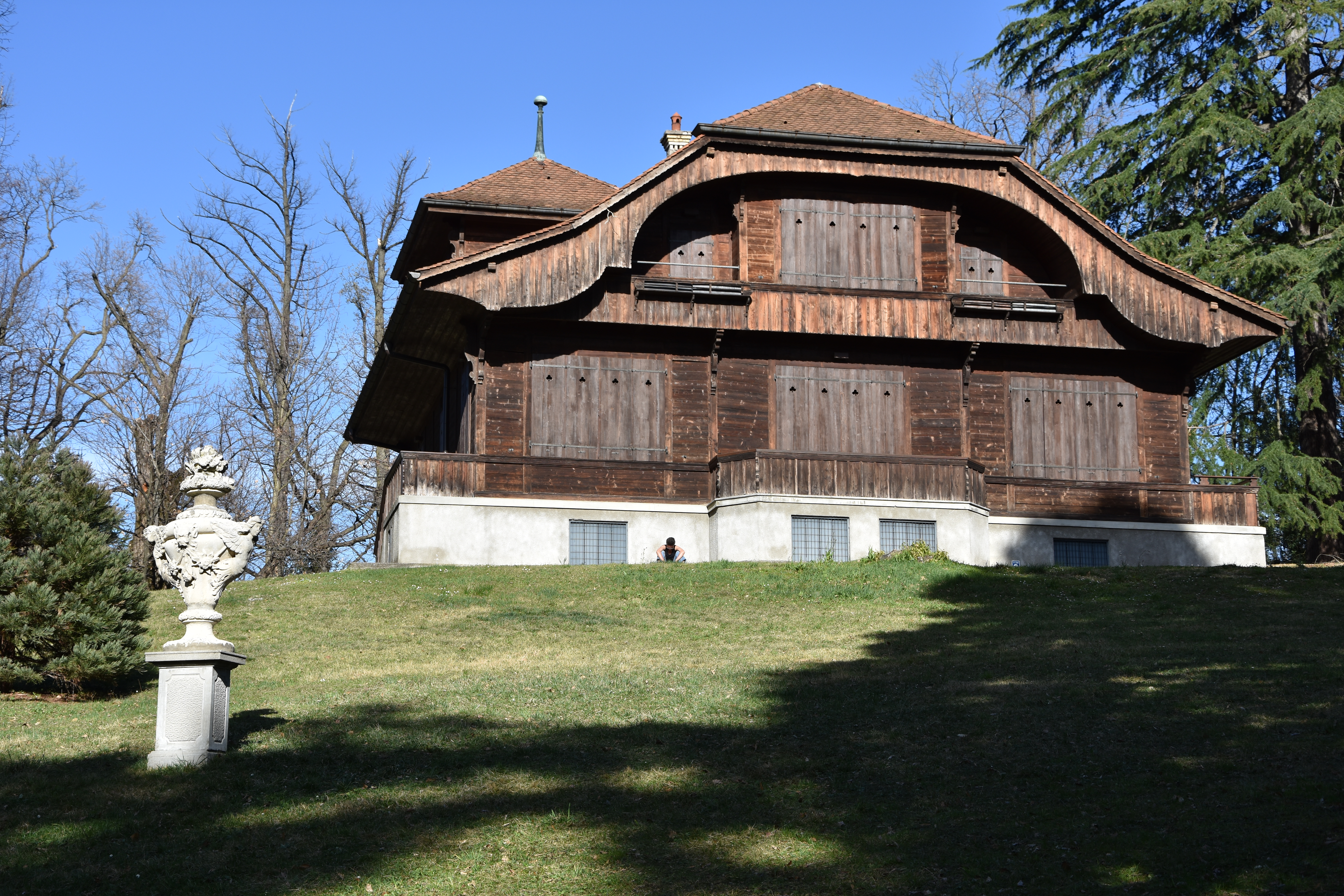 Villa Baragiola in Varese, Italy.